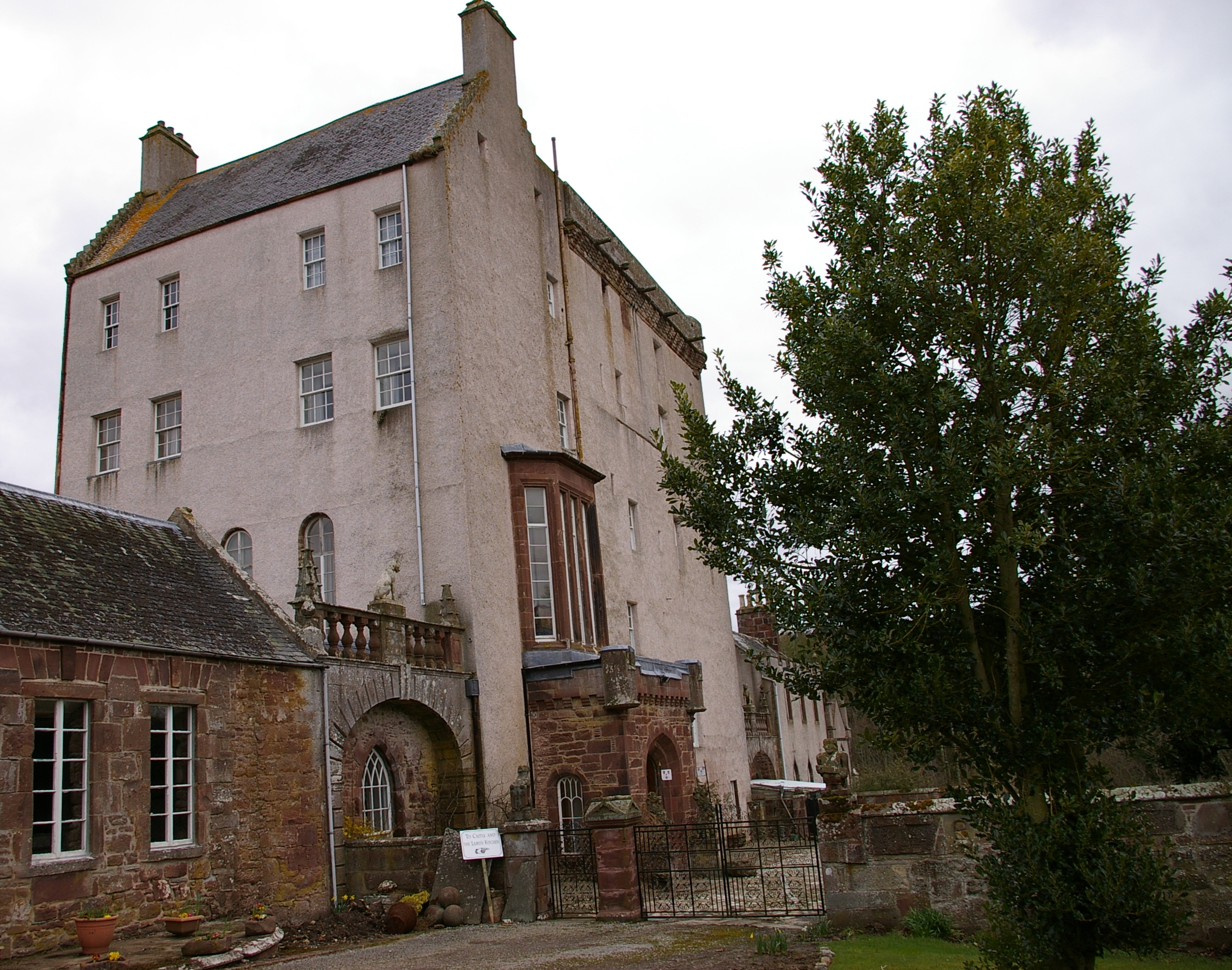 Copyright 2006,2007 - John D. Hays - Free to use if original author is credited.